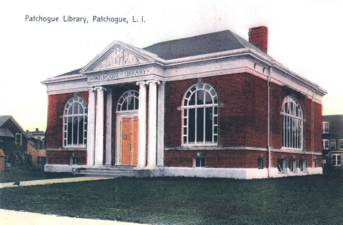 1908 postcard of Patchogue-Medford Carnegie Library